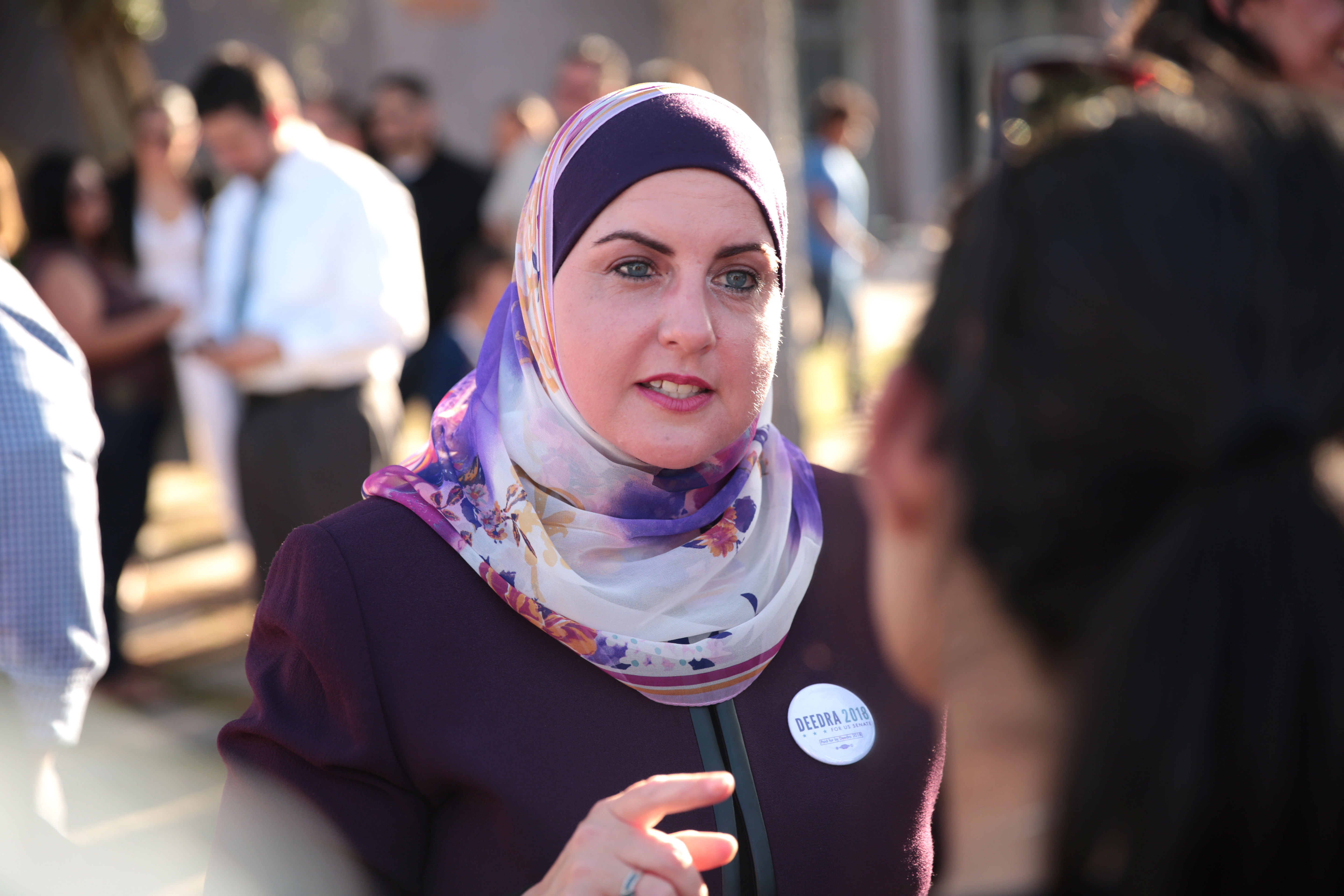 Deedra Abboud speaking with attendees at a campaign announcement for David Garcia for Governor of Arizona at the Arizona Capitol in Phoenix, Arizona.